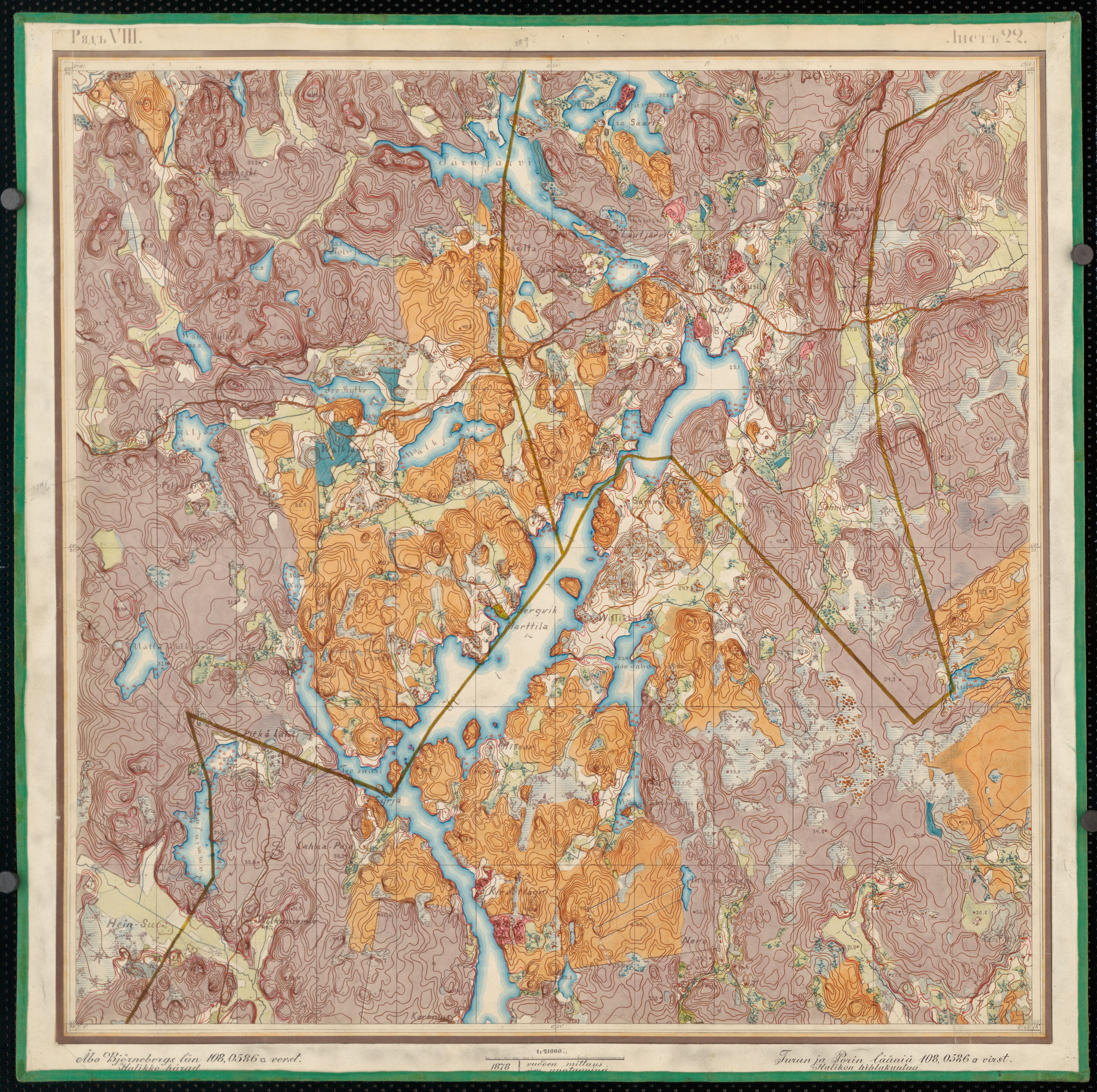 The Senate Atlas is a series of maps of Southern Finland drawn by the Russian Army topographic troops in the end of the 19th and the beginning of the 20th centuries in scale 1:21 000. The Senate Atlas consists of 2 individual series with different colouring traditions, the Russian and the Finnish.